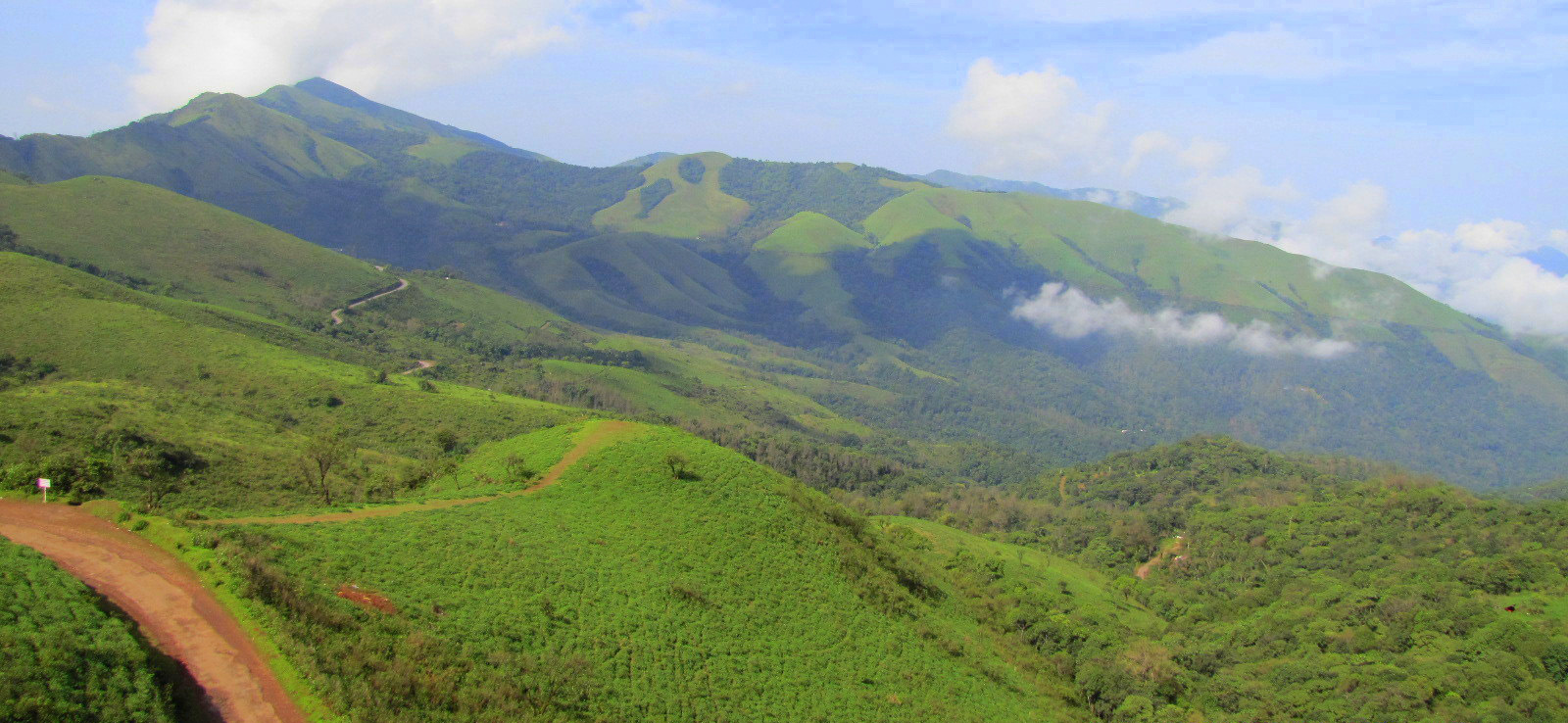 Image shot at, Baba Budangiri,western ghats of Karnataka,India.